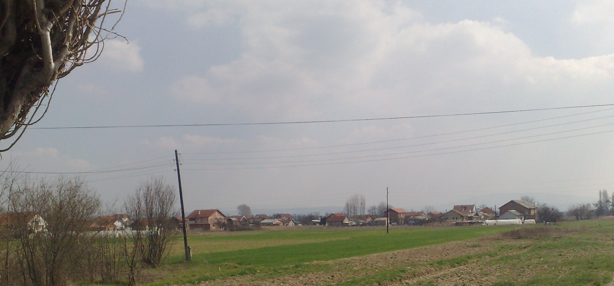 village of Dolno Lisiche, Macedonia